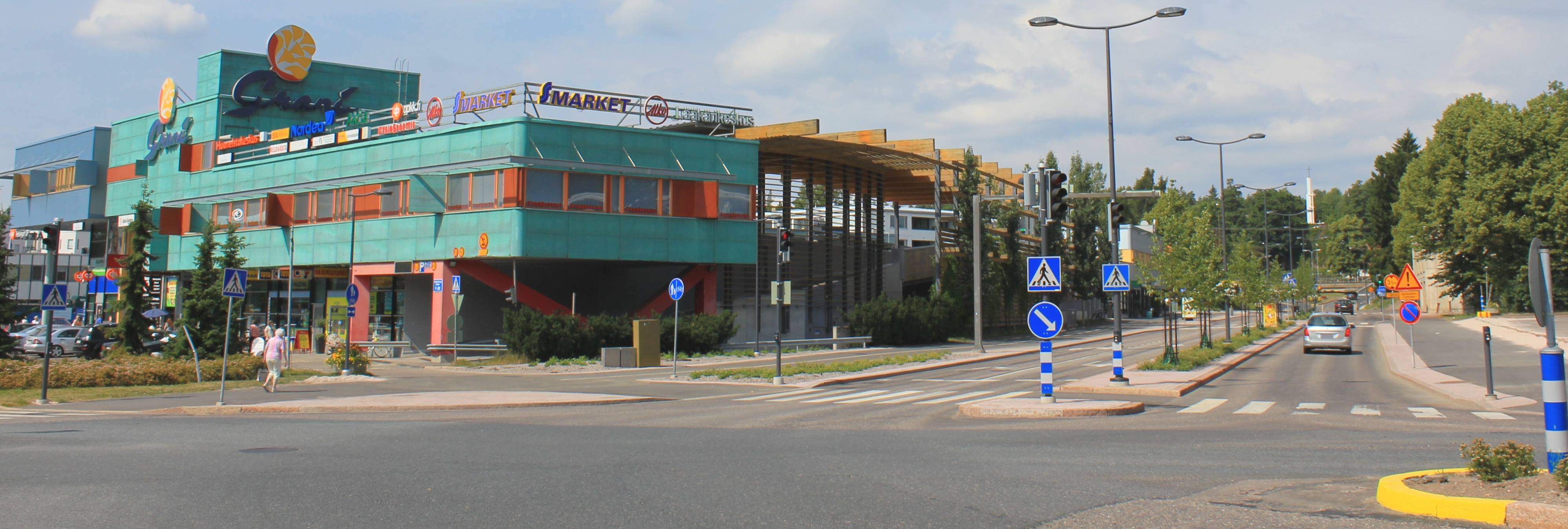 Shopping mall Grani, Kauniainen, Finland.